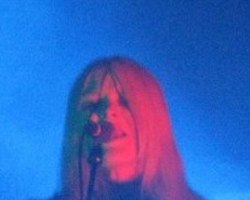 Karin Dreijer Andersson at performance.